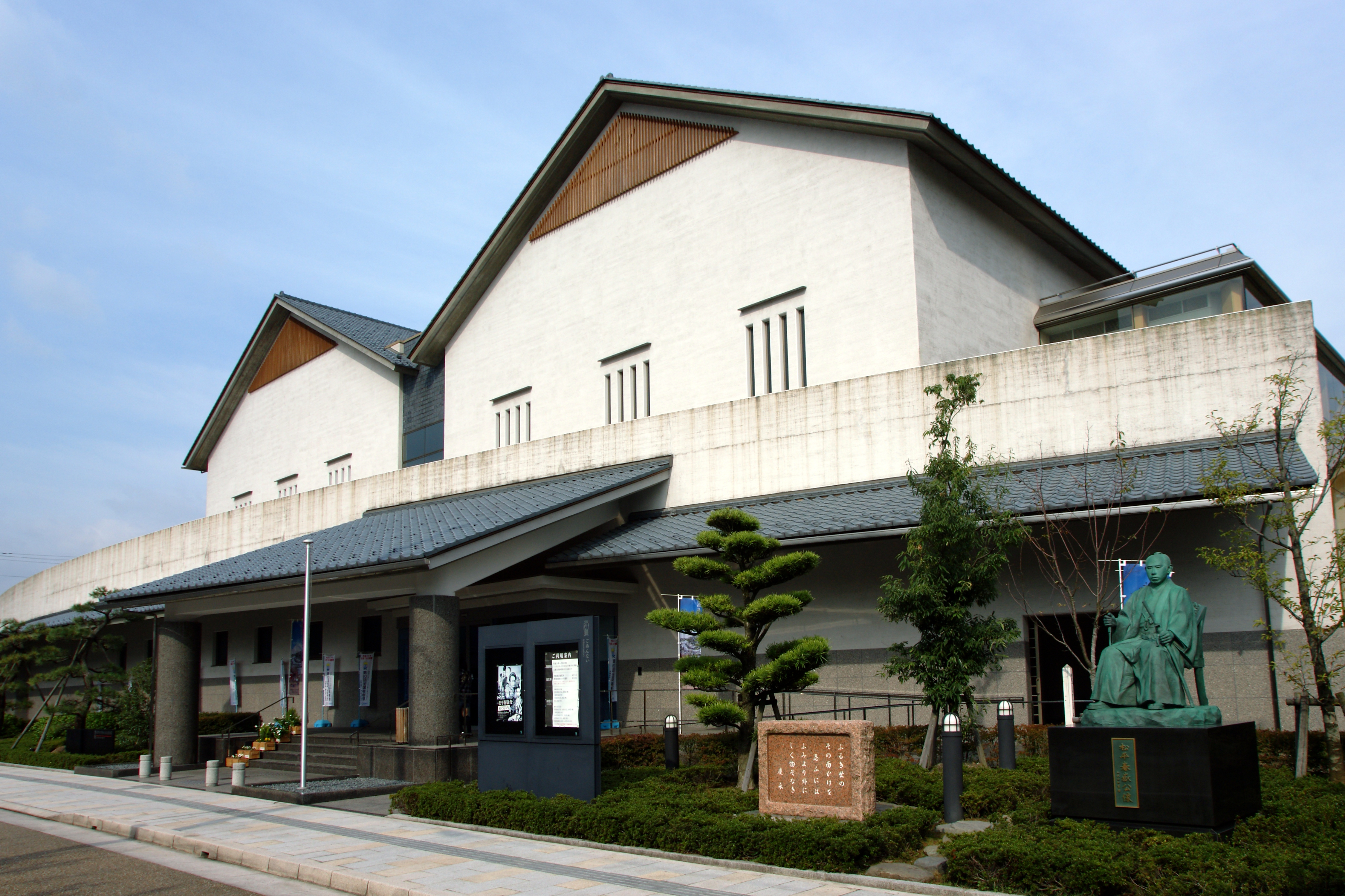 Fukui City History Museum, Fukui, Fukui prefecture, Japan